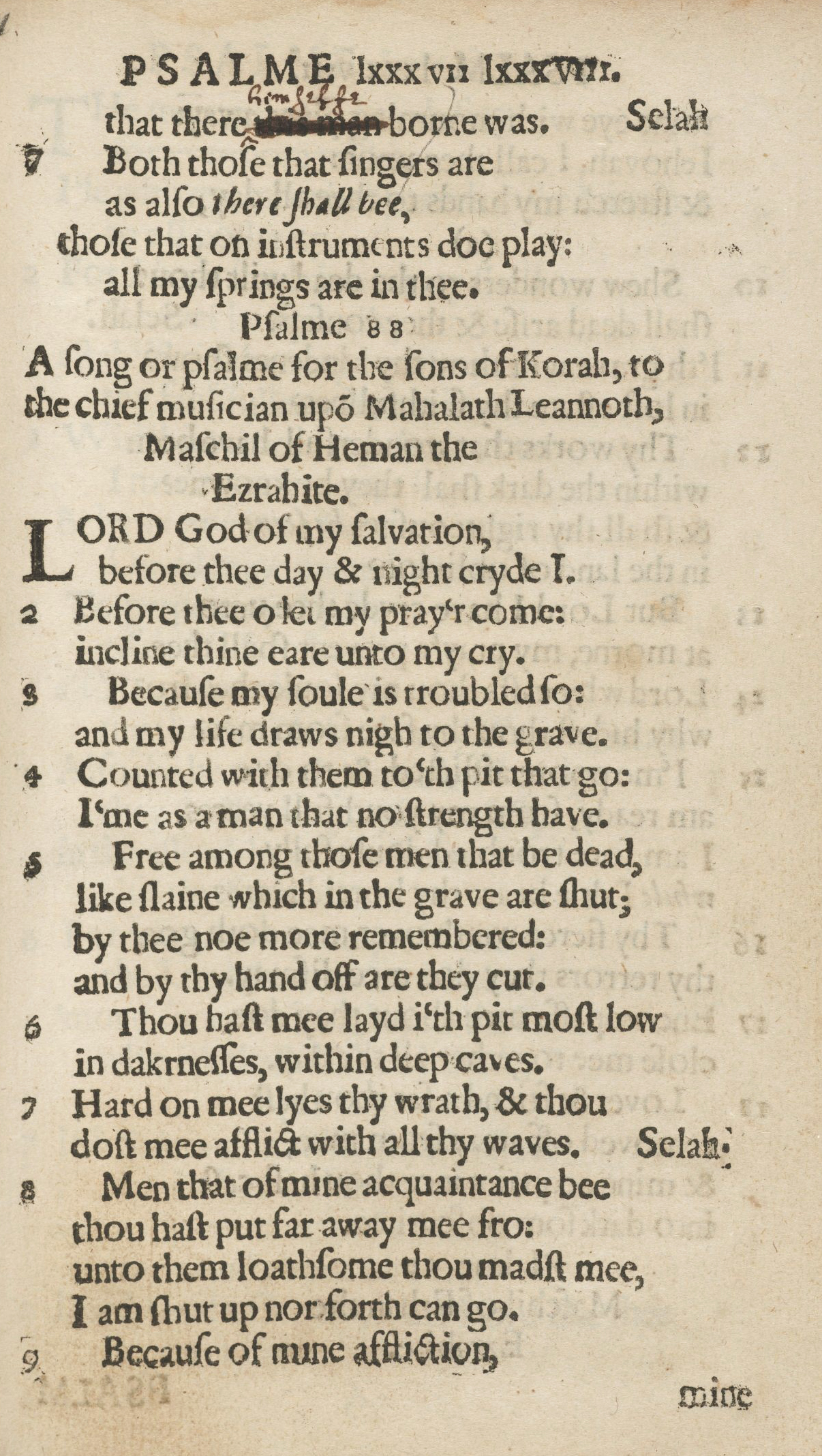 The vvhole booke of Psalmes, faithfully translated into English metre ["The Bay Psalm Book"], published in Cambridge by Stephen Daye, 1640. STC 2738, Houghton Library, Harvard University